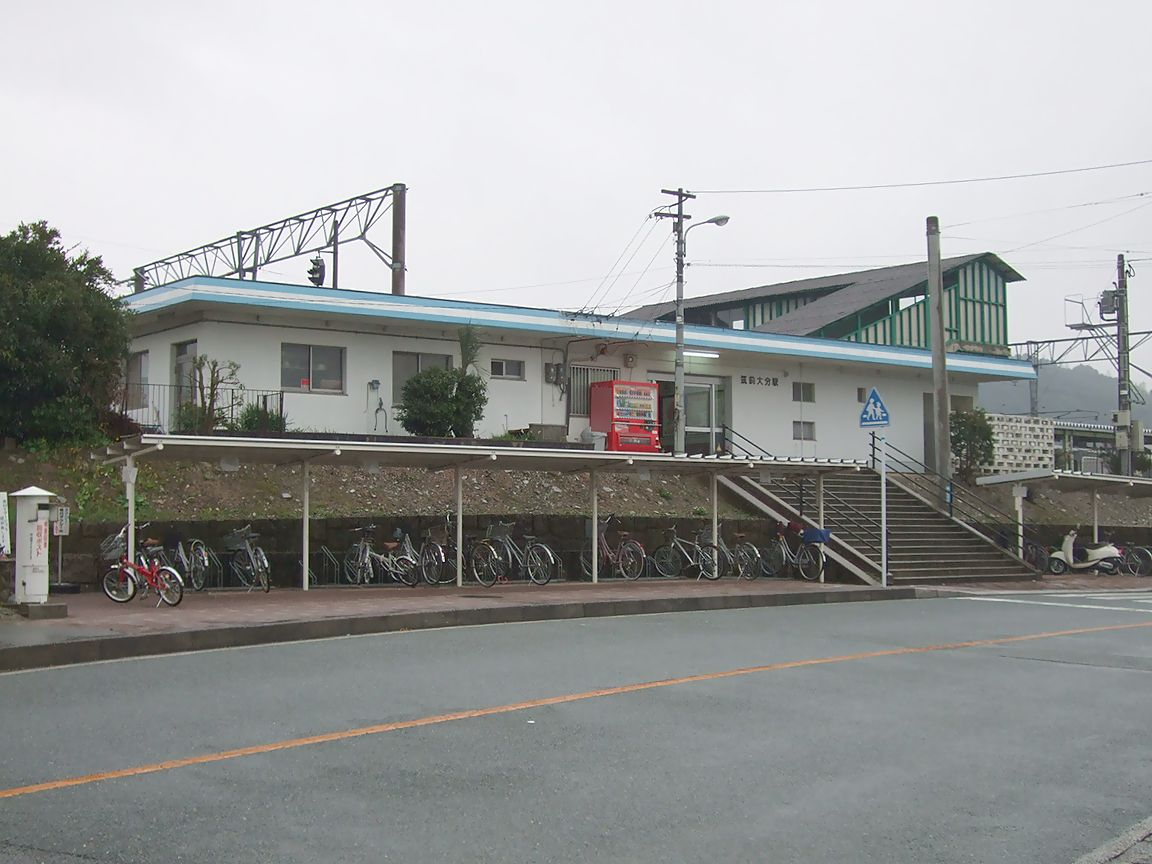 Chikuzen-Daibu Station, Sasaguri Line (Fukuhoku Yutaka Line), Kyushu Railway Company.